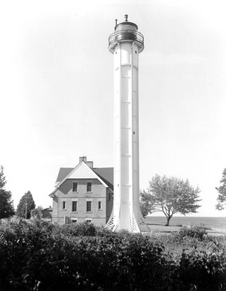 U.S. Coast Guard Archive Photo of St. Martin Island Light, St. Martin Island, Michigan